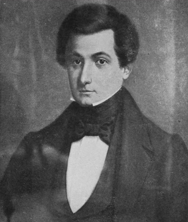 Robert Williams, Governor of Mississippi Territory